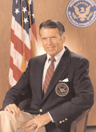 George Allen, American football coach.